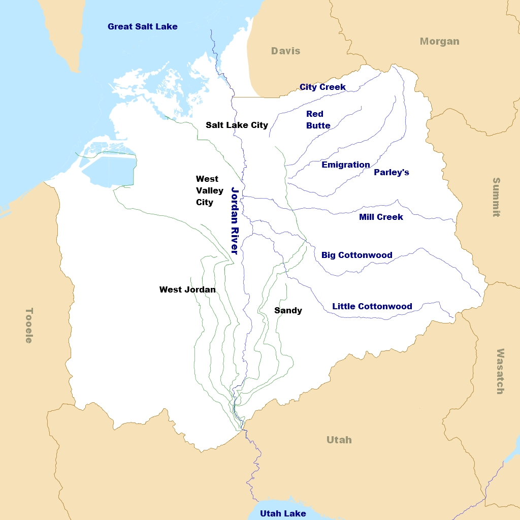 A map of the Jordan River watershed, exclusive of the drainage basin surrounding Utah Lake, which also flows into the Jordan. Rivers and creeks are in blue. Canals are in gray.